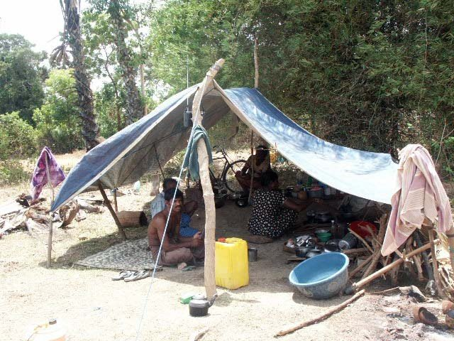 Displaced persons from the civil war on Sri Lanka. Original caption: due to govt restrictions on the transporation of humanitarian relief and construction materials the IDPs must live in the open air or in makeshift shelters